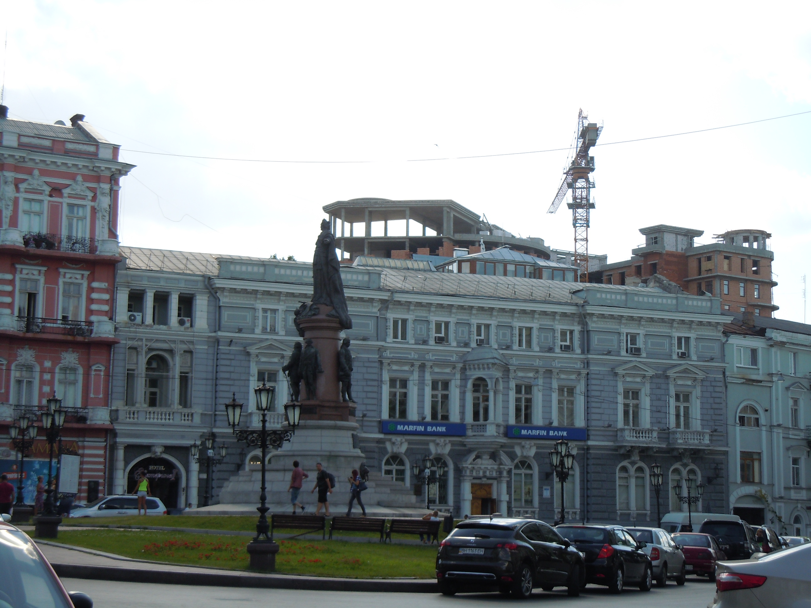 The construction of a modern building is visible beyond the old historical architecture. Odessa, Ukraine